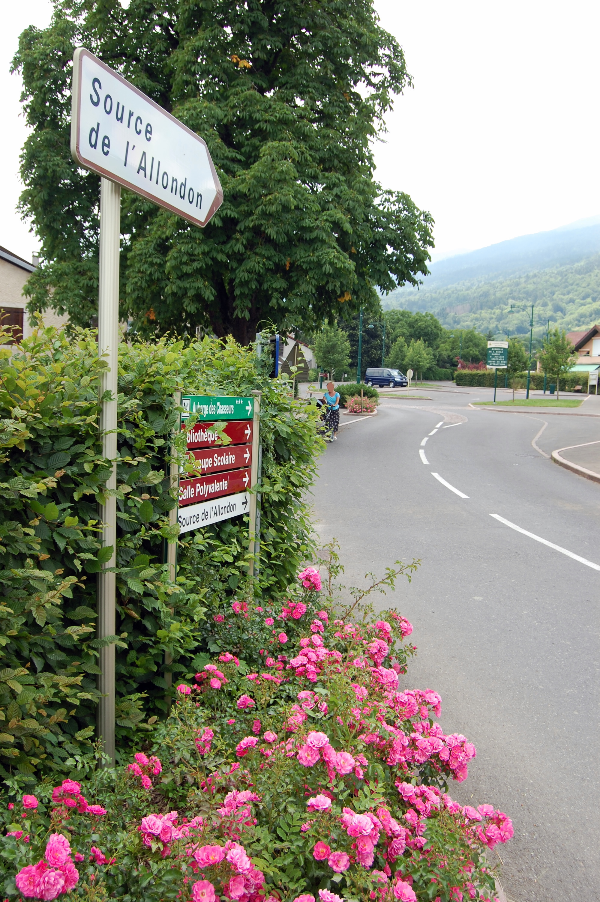 A view of street to Allondon source.